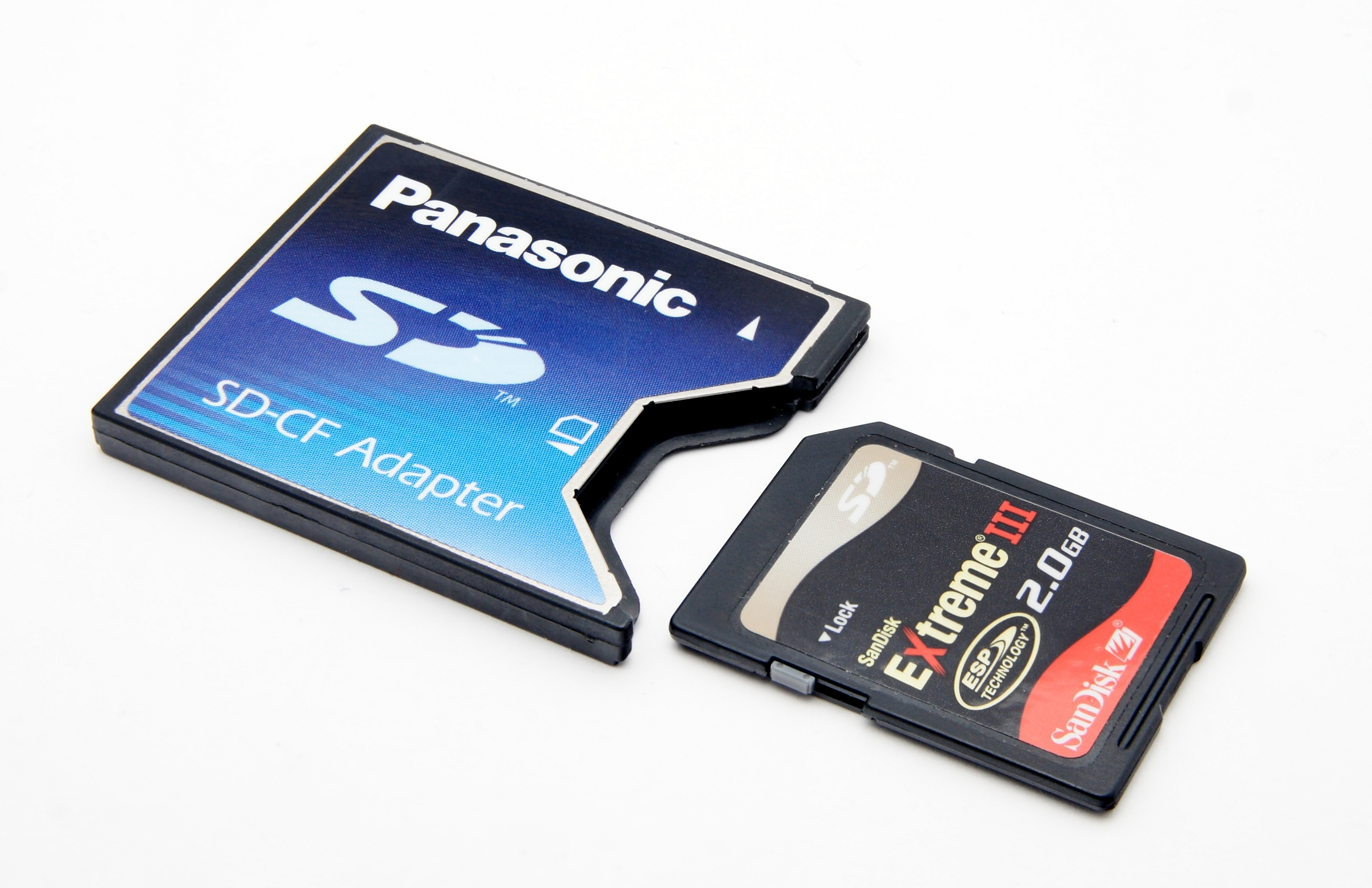 Panasonic CompactFlash-SecureDigital adapter (CF Type I)